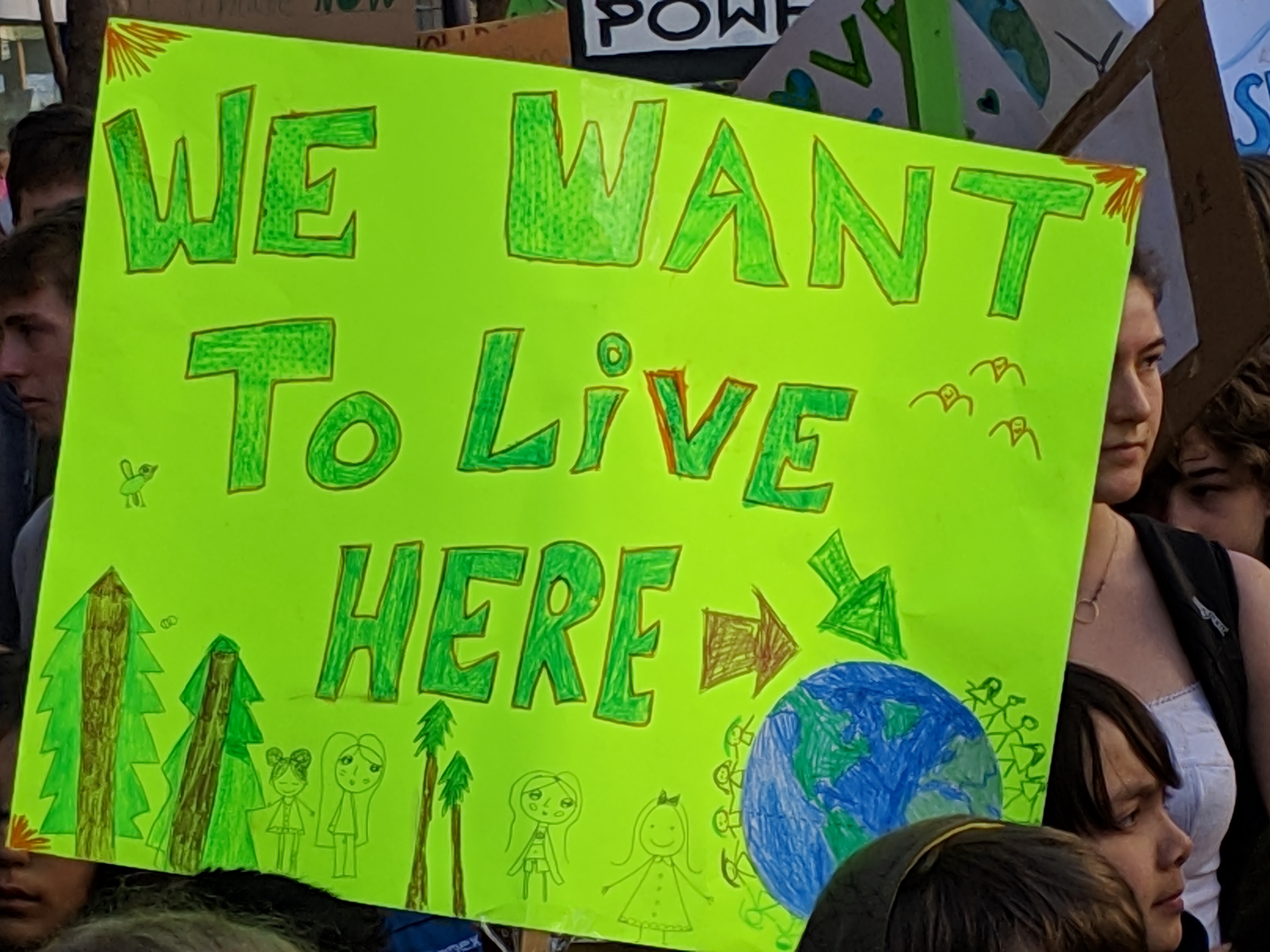 Protester sign along Market Street during the San Francisco Youth Climate Strike, on 15 March 2019.